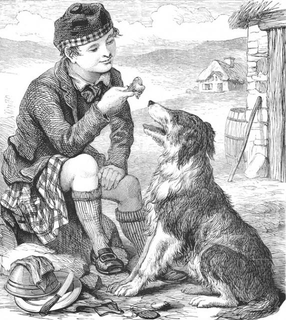 (Removed after reusableart request.)